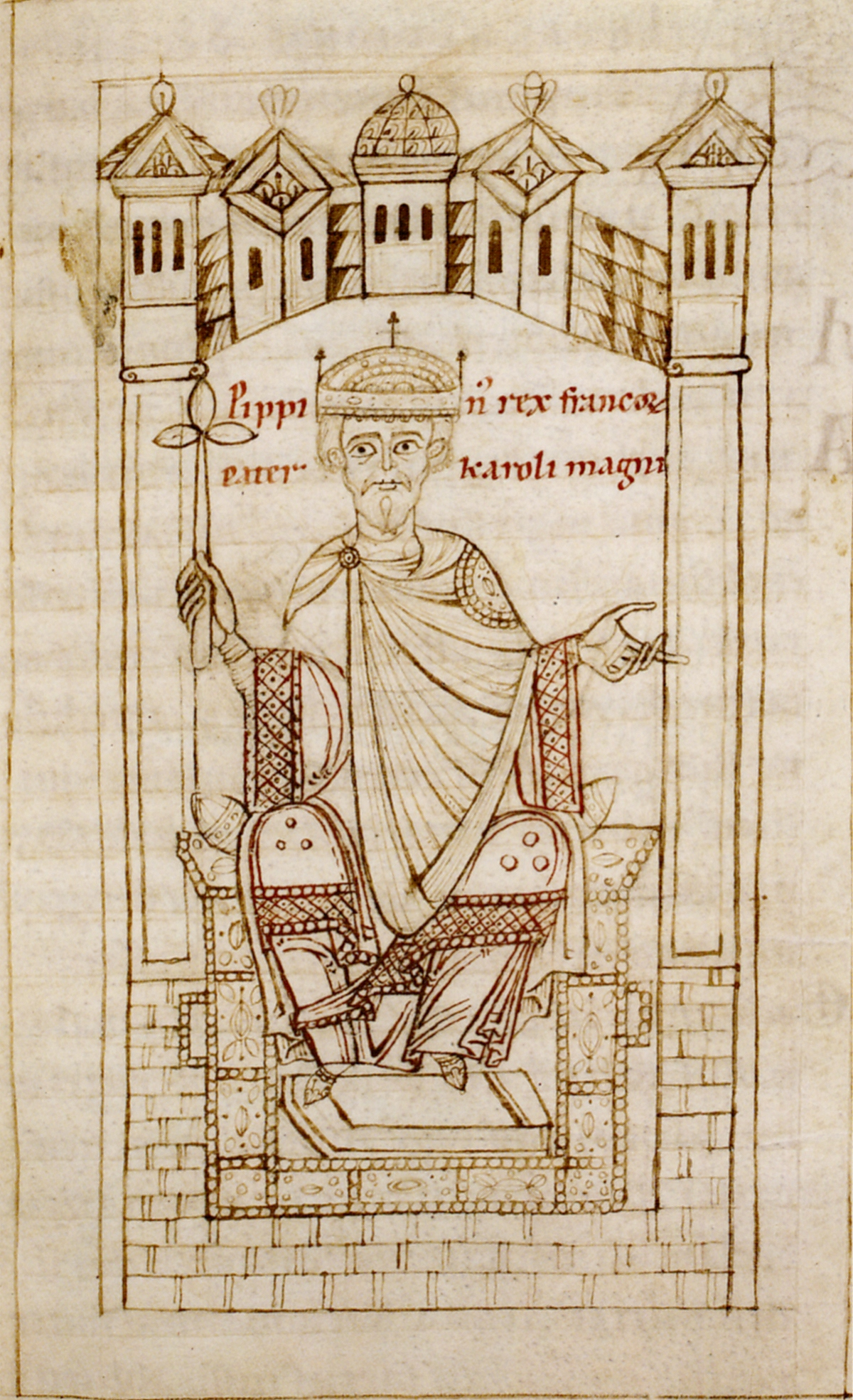 Pepin the Short, miniature, Imperial Chronicle (Anonymi chronica imperatorum), Corpus Christi College MS 373, fol. 14 References: Binski P., Panayotova S.: The Cambridge Illuminations, No. 107